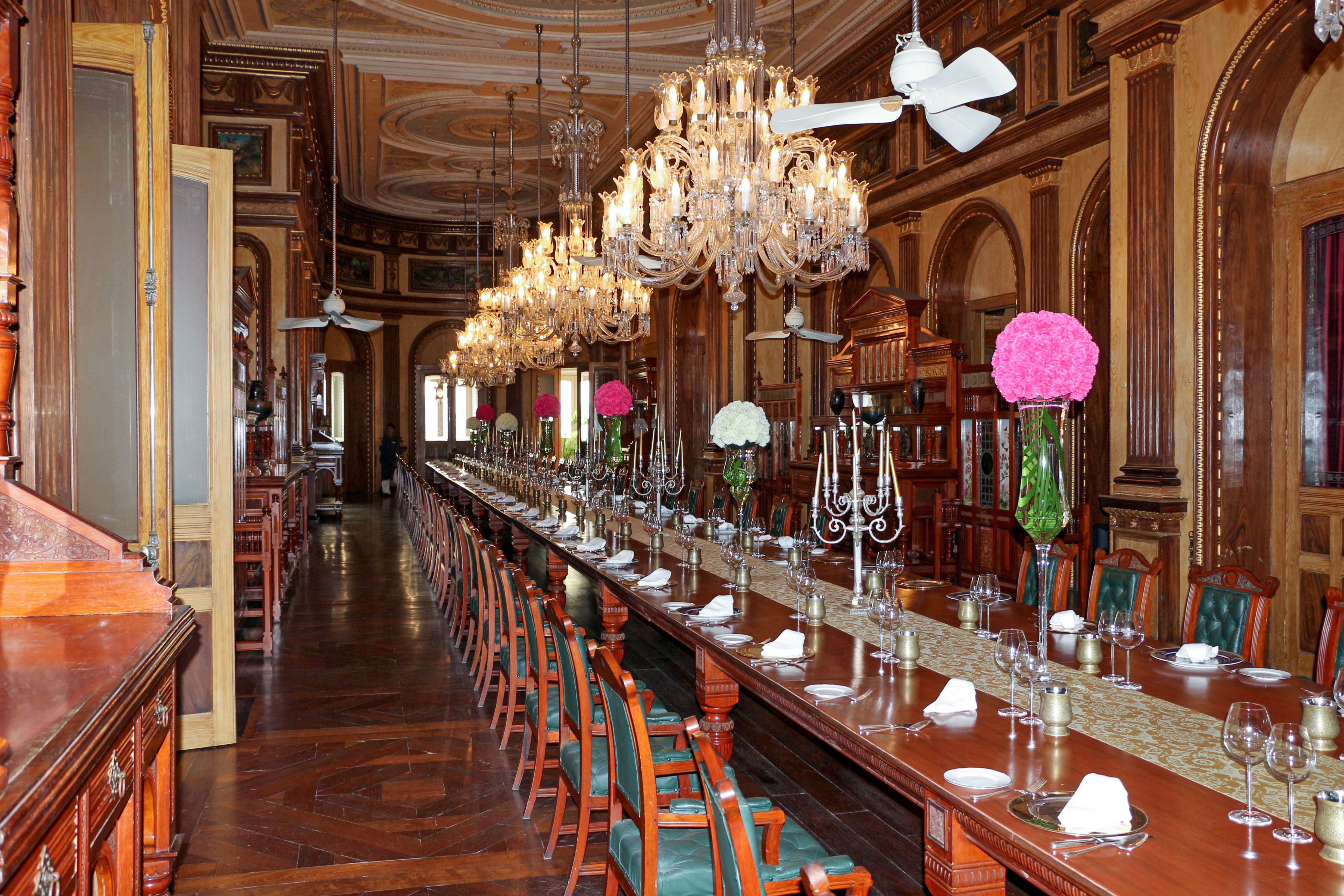 Dining table of Falaknuma Palace, Hyderabad, India